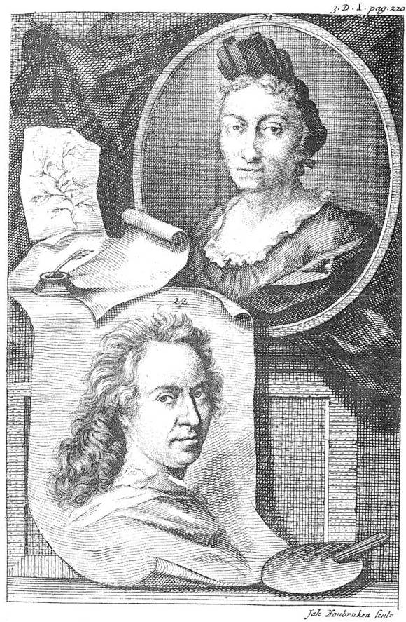 Plate I p220 21 Maria Sybille Merian, 22 David vander Plaas. Illustration from Part 3 of Arnold Houbraken's Schouburg from 1721